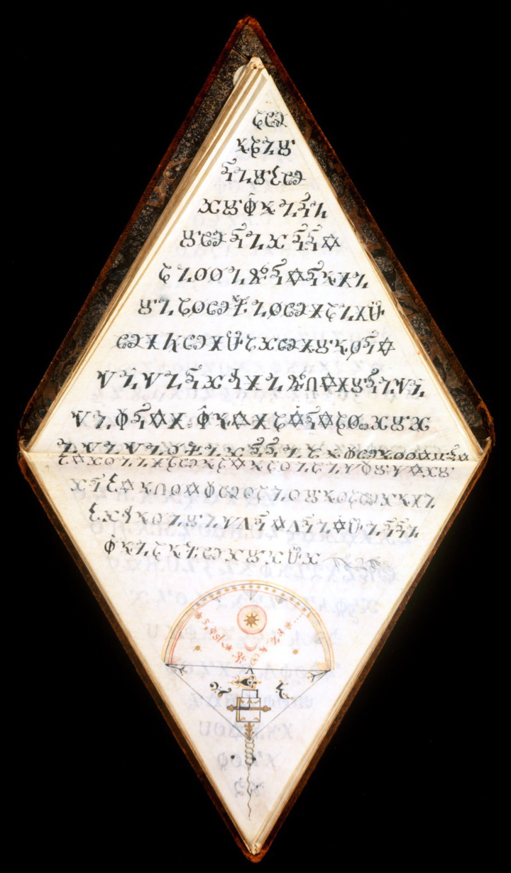 Example of the cipher employed in MS 210 / Triangular Book of St Germain. Note that the cipher in both text and diagram.